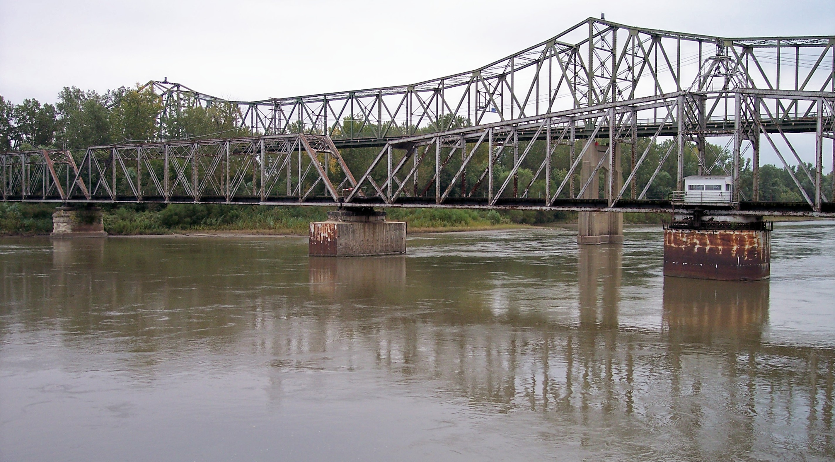 The Amelia Earhart Bridge (the taller bridge, in background) over the Missouri River between Atchison, Kansas and Buchanan County, Missouri. The lower bridge in foreground is a rail bridge.